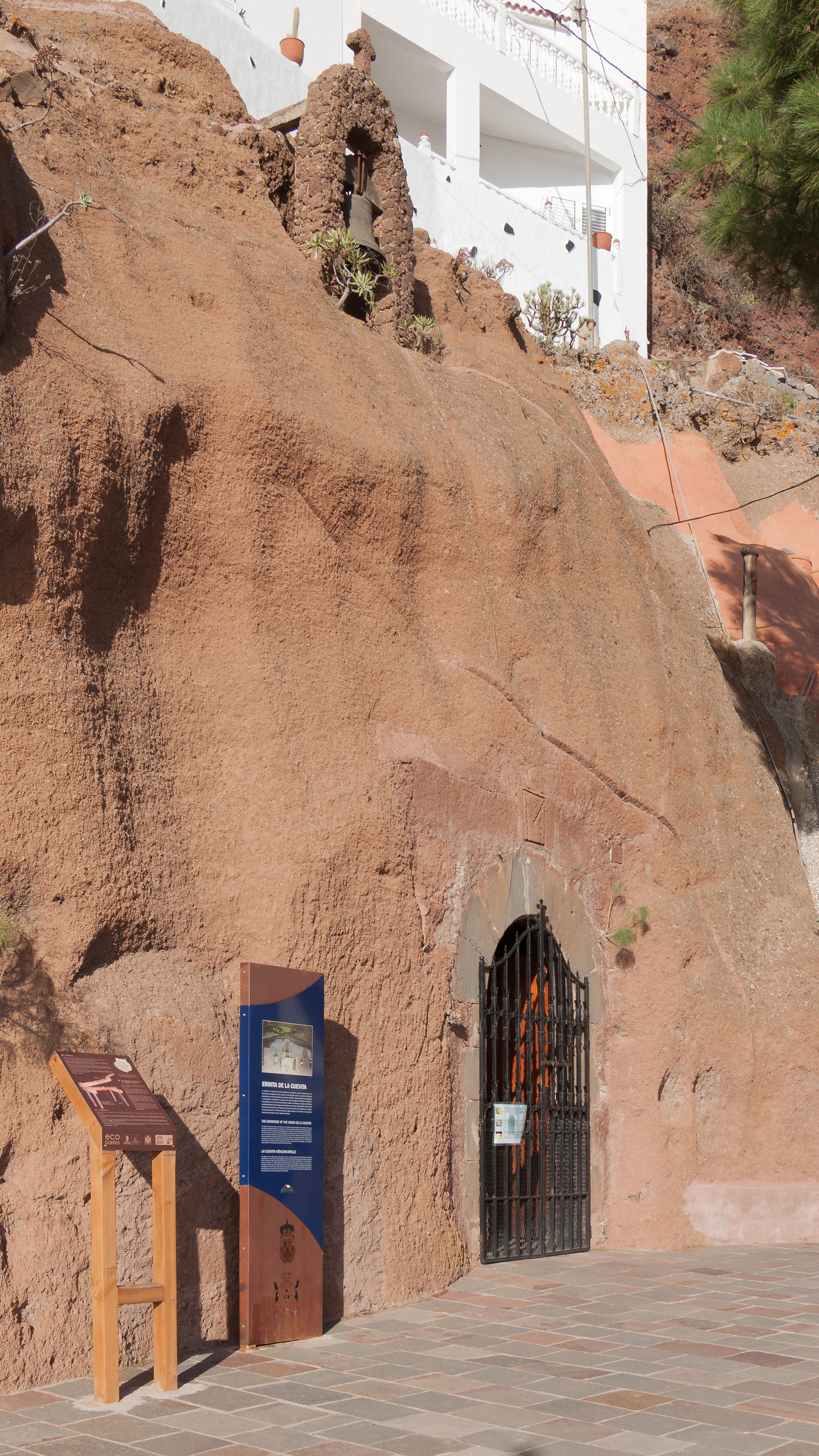 Facade of the Ermita de la Cuevita, Artenara, Gran Canaria, Canary Islands, Spain.